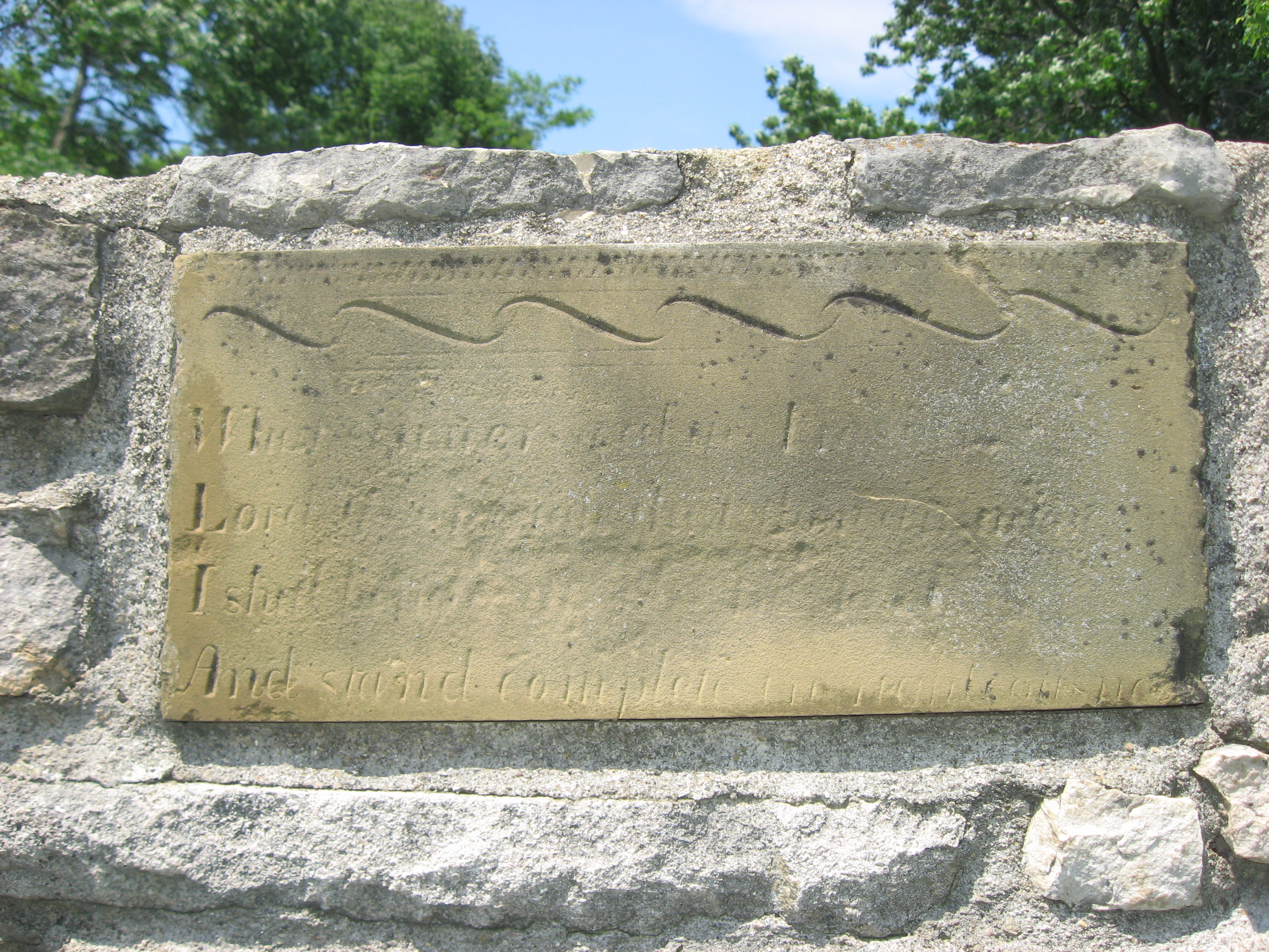 Plaque on the Indian Run Cemetery Stone Walls, which encircle Indian Run Cemetery east of N. High Street in Dublin, Ohio, United States. Built in 1823, the walls are listed on the National Register of Historic Places. The plaque is a quote from Isaac Watts' imitation of Psalm 17:"What sinners value I resign;/Lord, 'tis enough that thou art mine:/I shall behold thy blissful face,/And stand complete in righteousness."